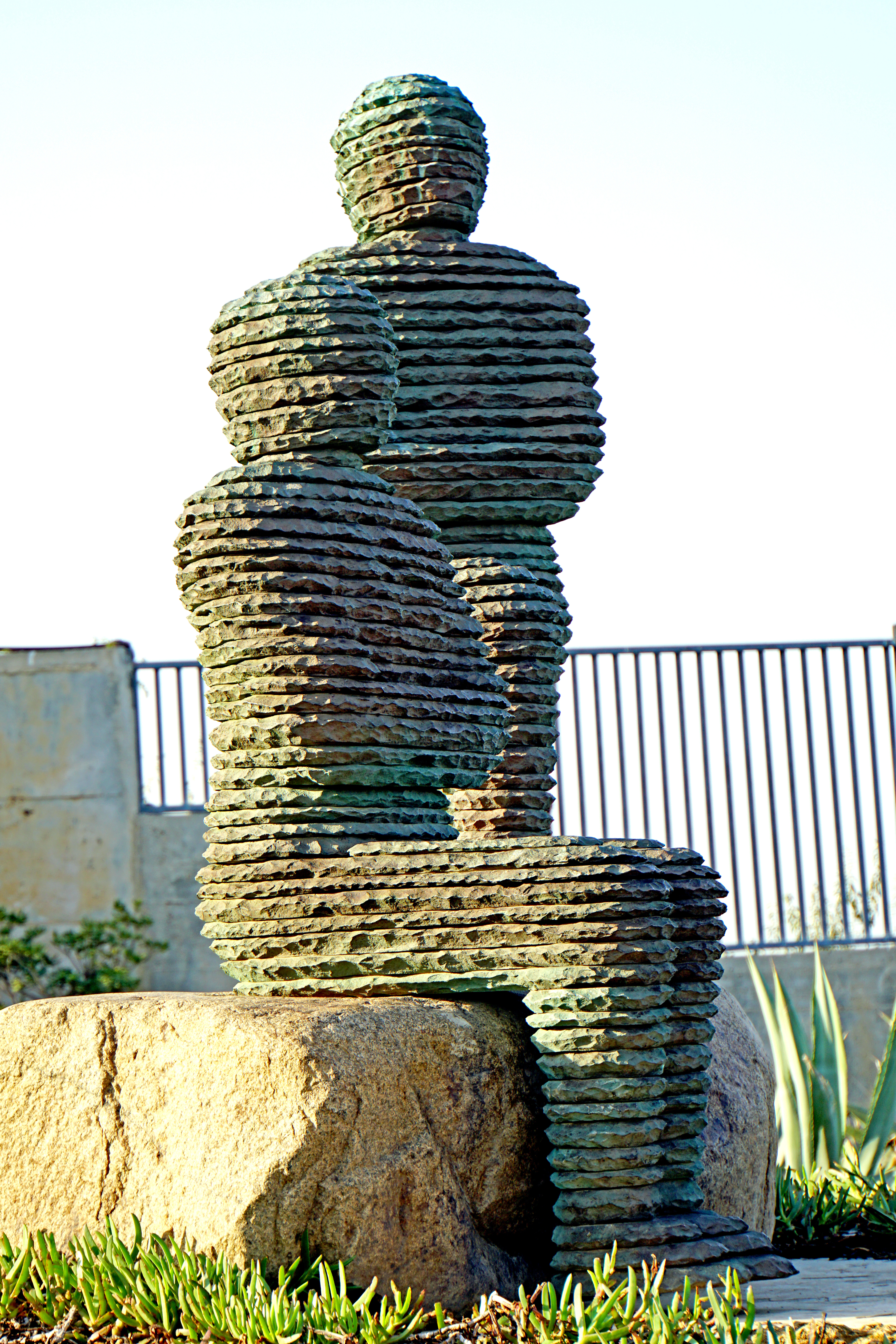 Bronze statues named for King Asa of Judah and King Yehoshafat of Israel at Tel Aviv's Independence Park. I wonder who is who???